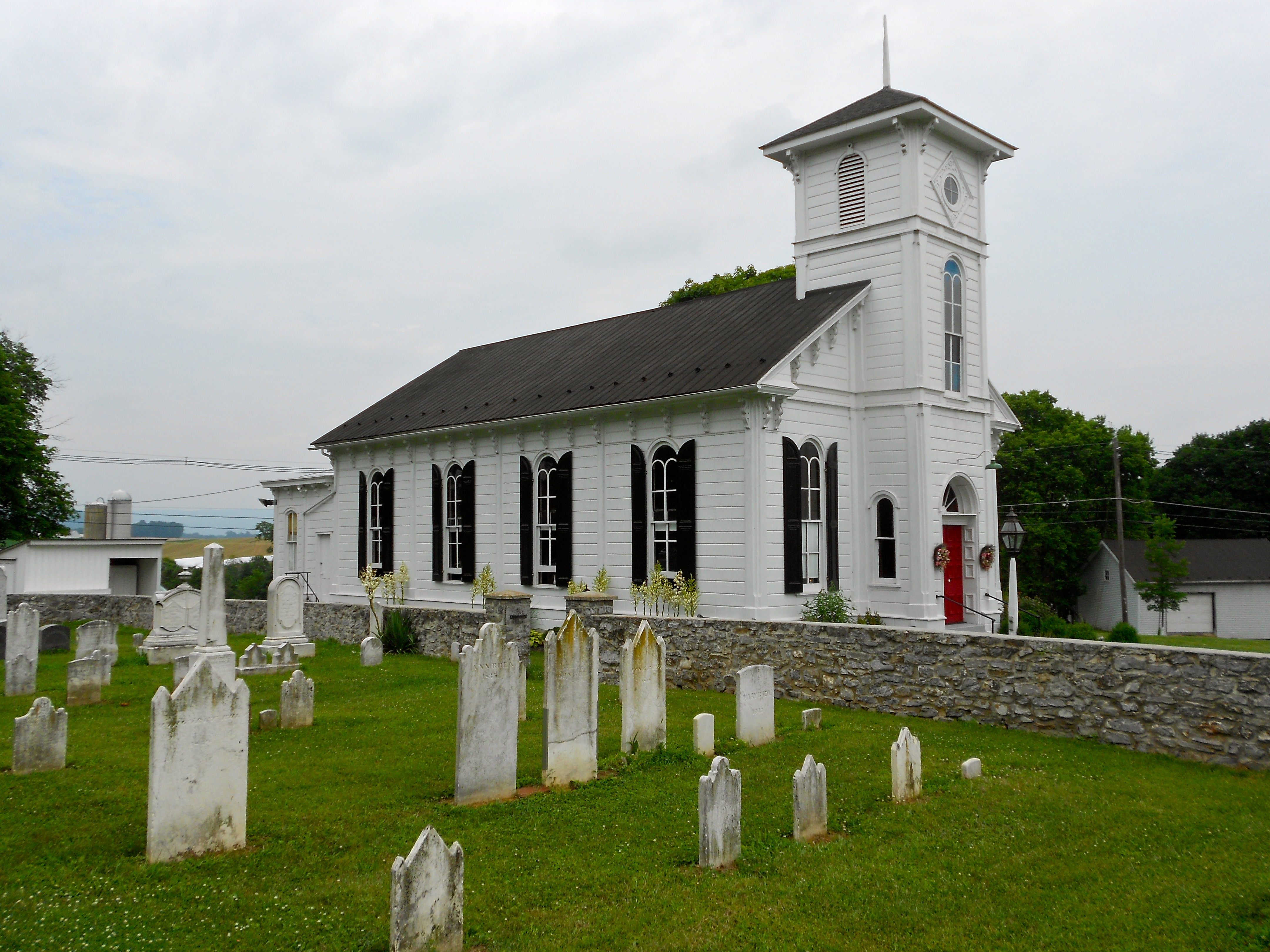 Robert Kennedy Memorial Presbyterian Church, listed on the NRHP on June 6, 2009 (#09000385) at 11799 Mercersburg Road (39°45′51″N 77°51′09″W) Montgomery Township, Franklin County, Pennsylvania. Not named after RFK, but for a historic parson.